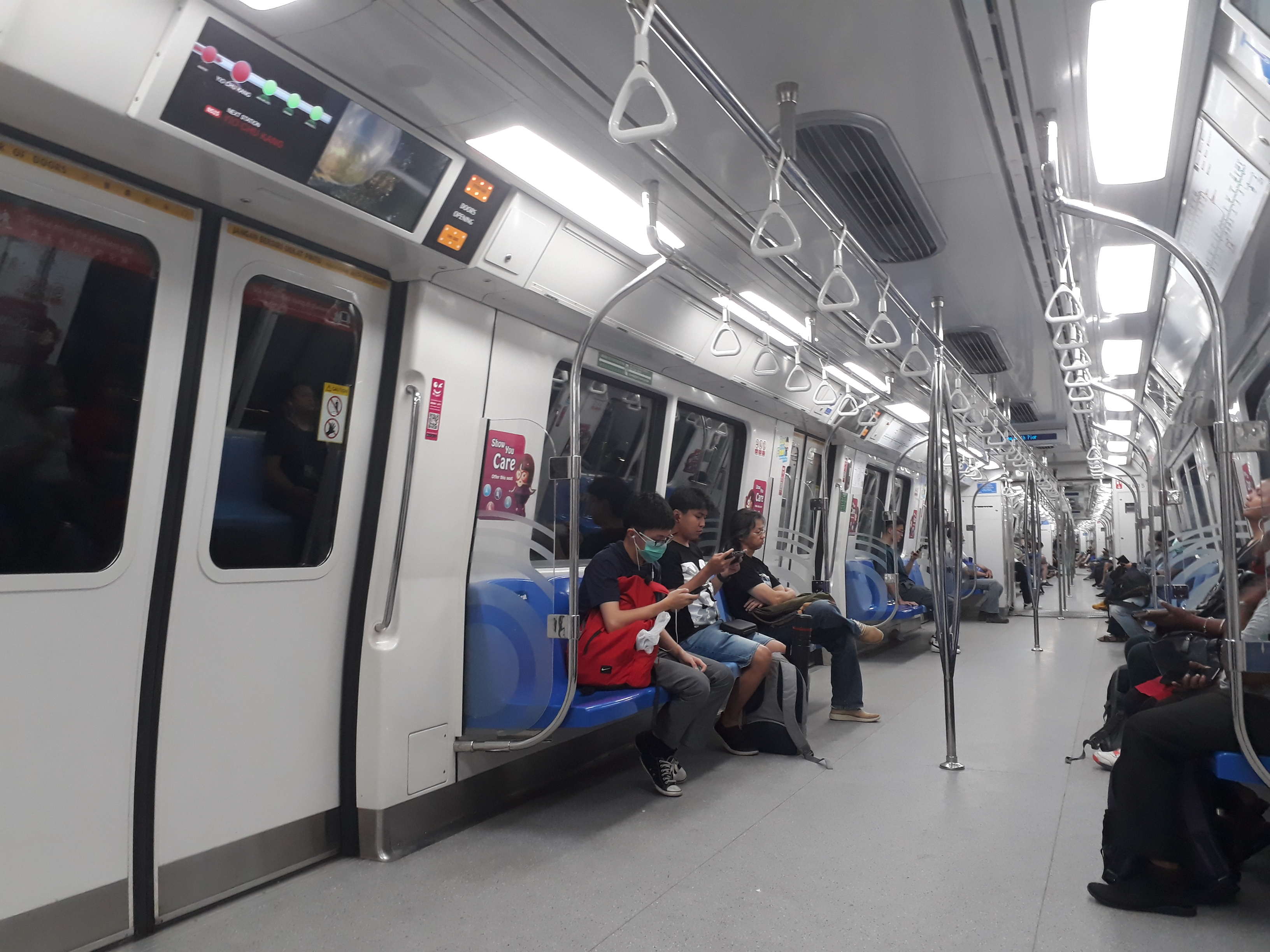 Interior of C151B